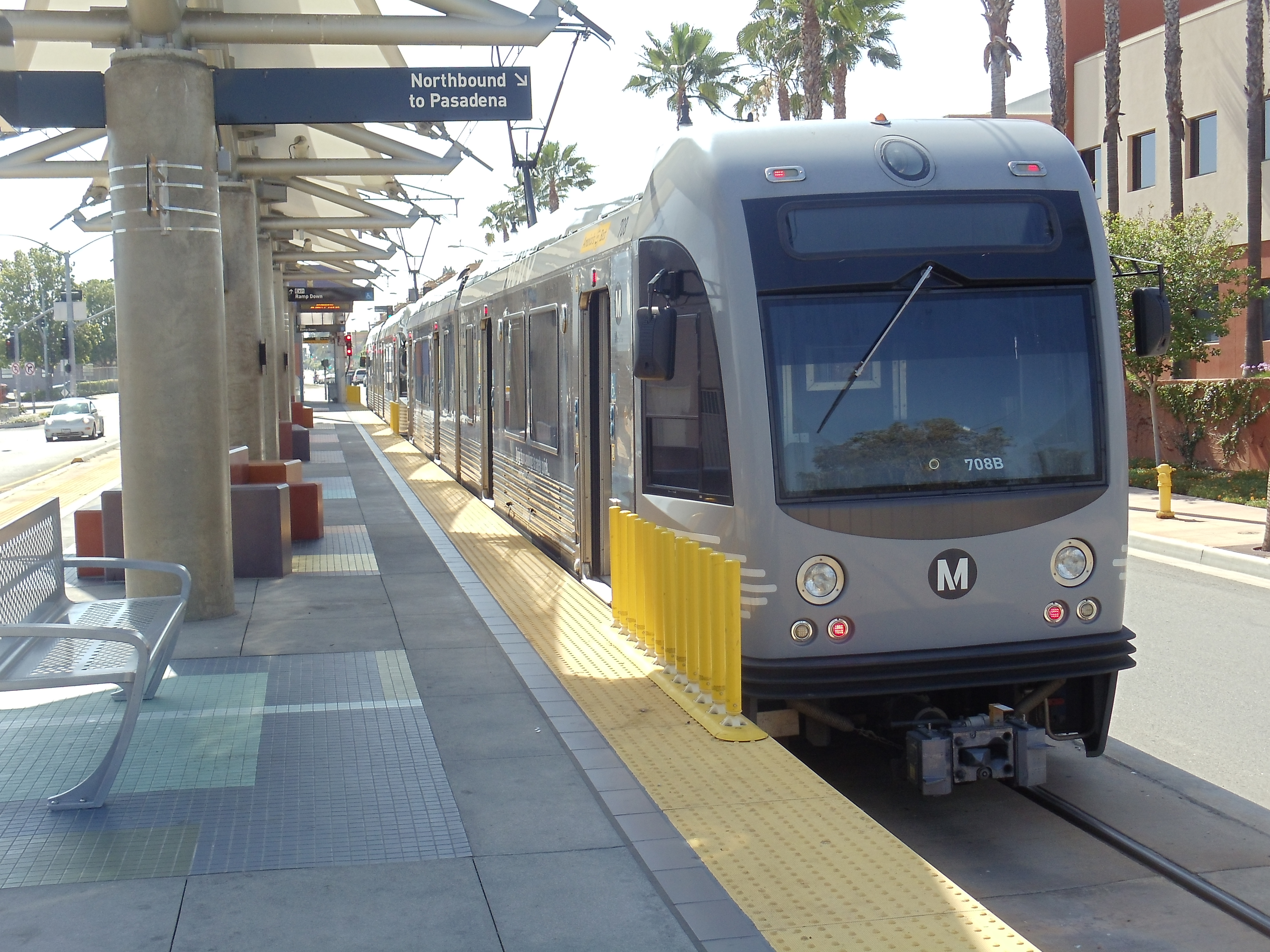 Metro Gold Line docked at Atlantic Station.